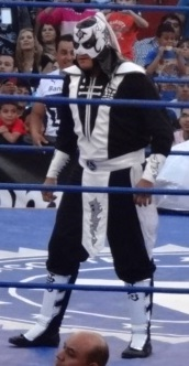 Pentagón, Jr. at Rey de Reyes (2013) before the first eliminatory of 2013 Rey De Reyes tournament.